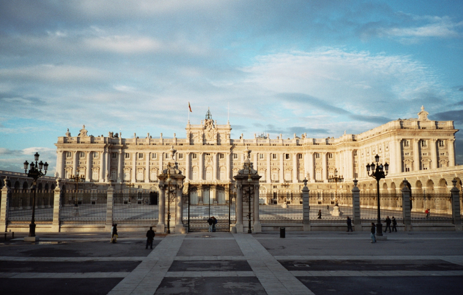 Description: The Palacio Real de Madrid (Royal Palace) in Madrid. Source: Self-made, I release it into the public domain.